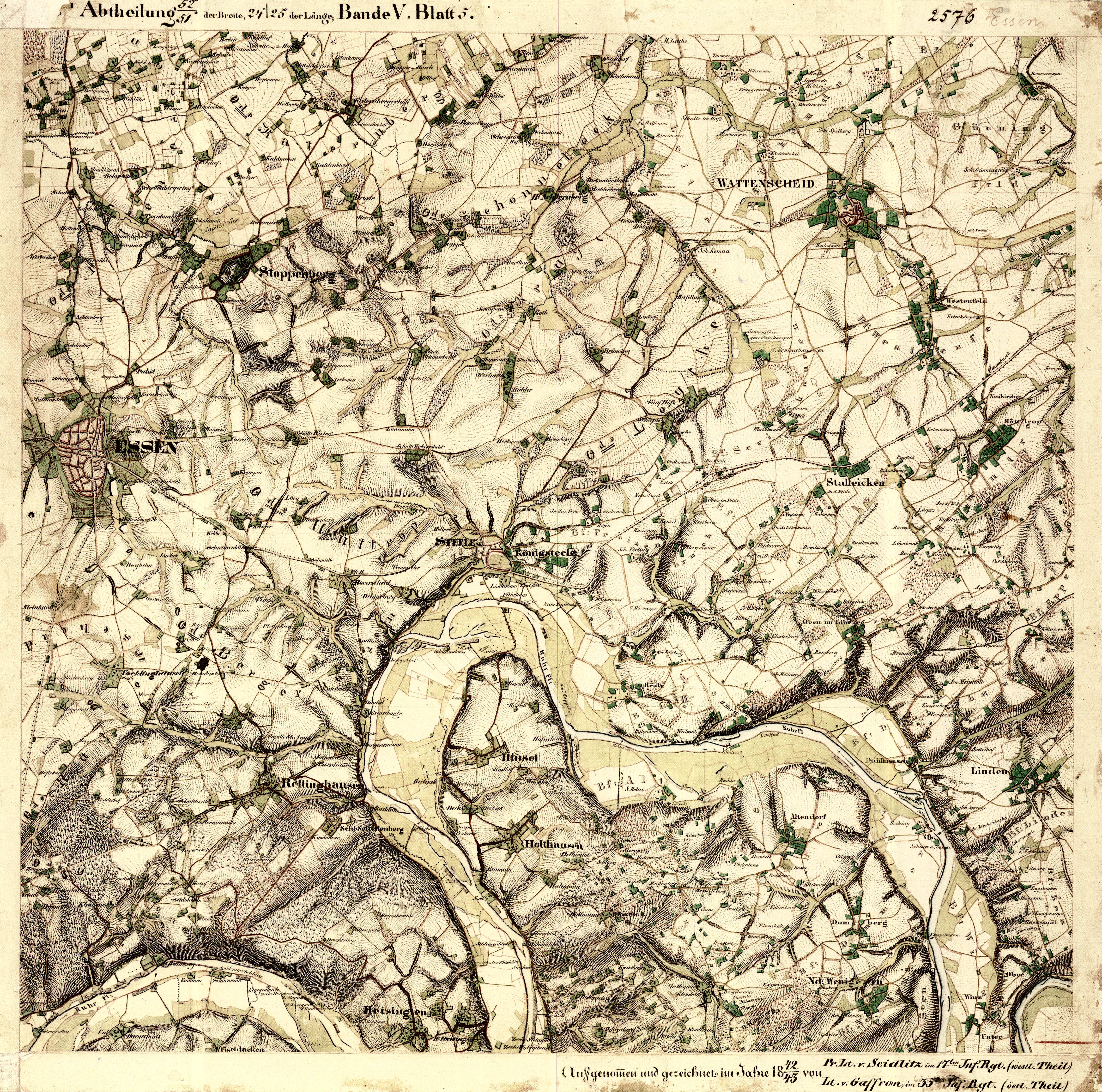 Map of Essen, 1843